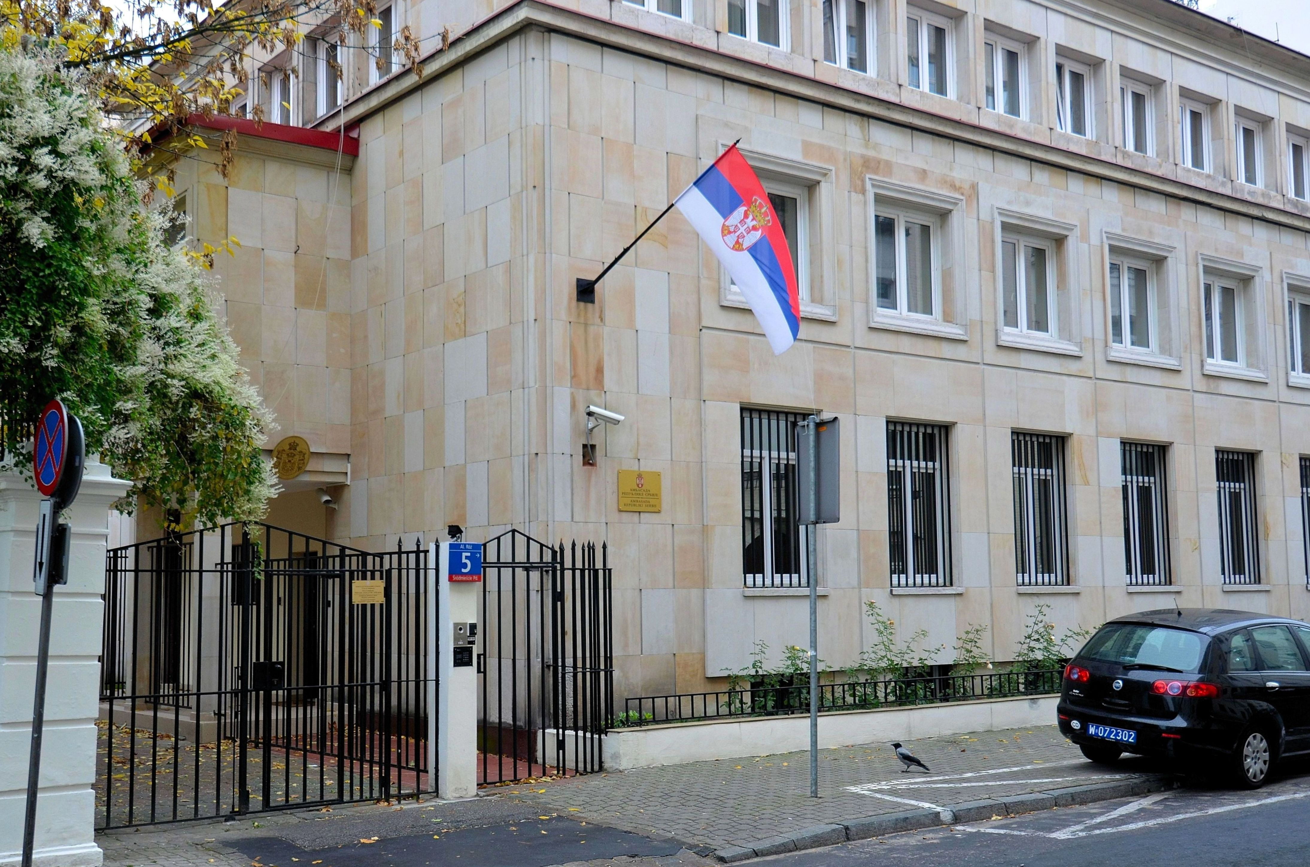 Embassy of Serbia at 5 Róż Avenue in Warsaw